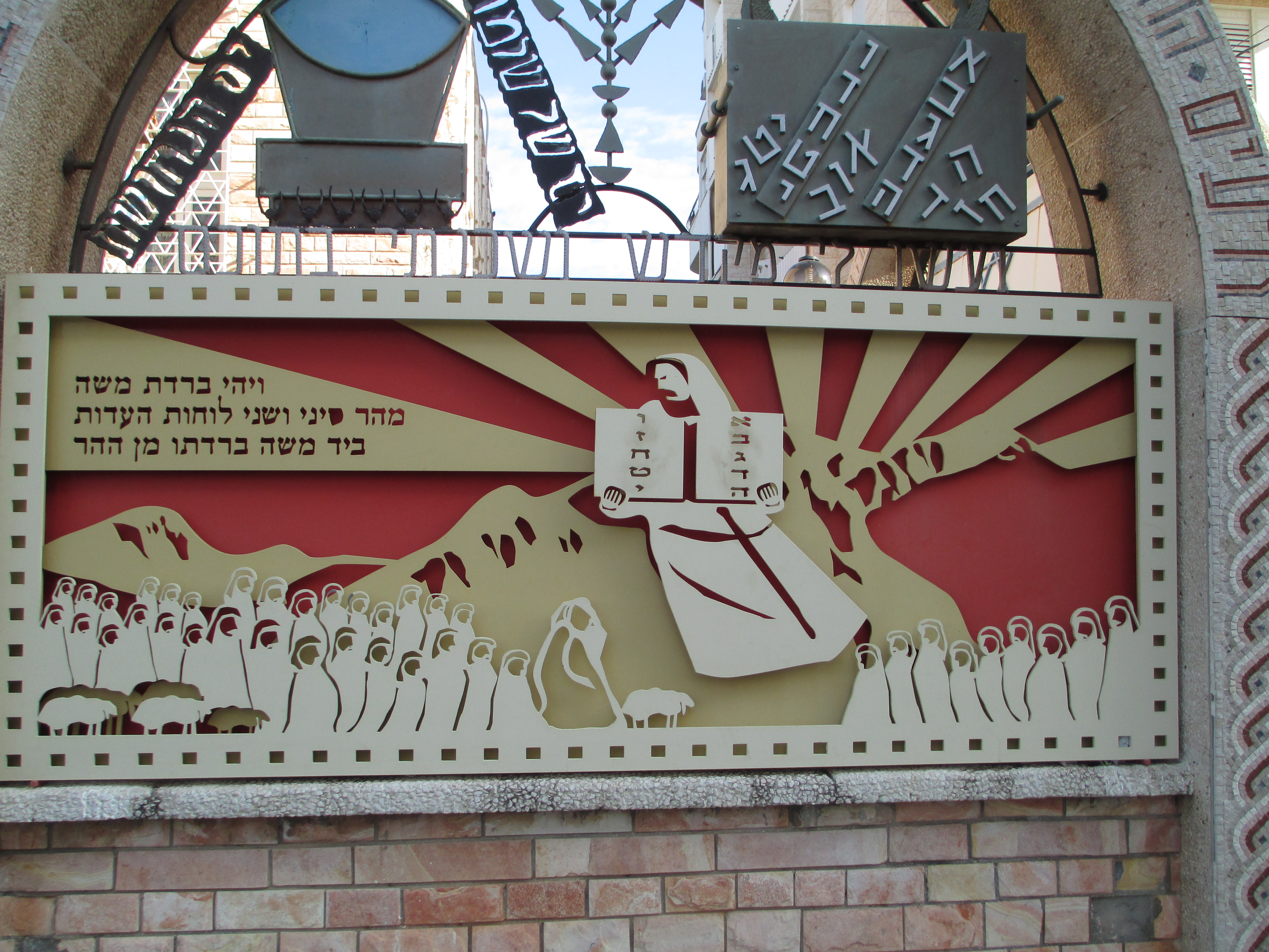 Or Torah Synagogue in Acre-Moses and the Ten Commandments